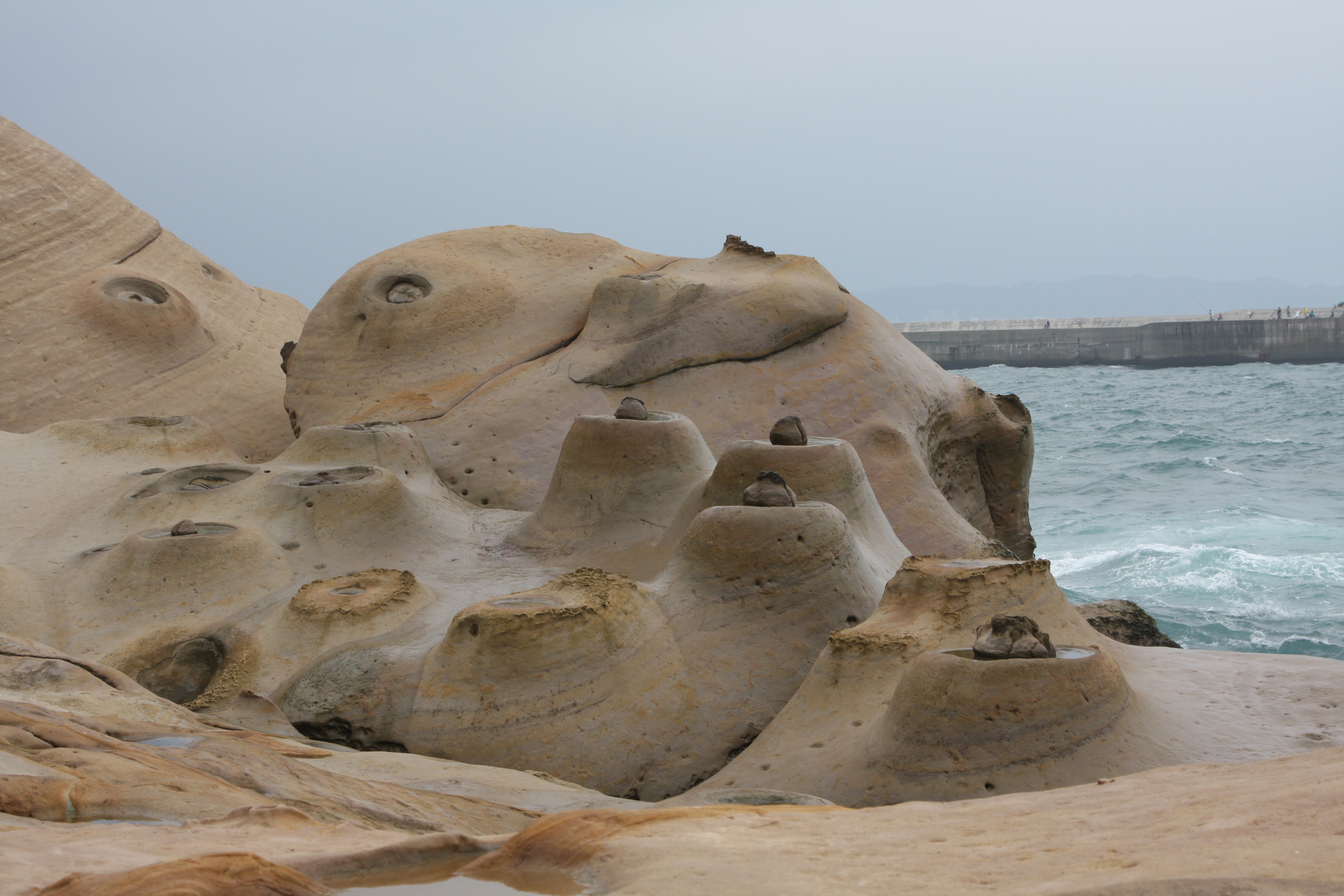 Rocks at the coast of Keelung (Taiwan)